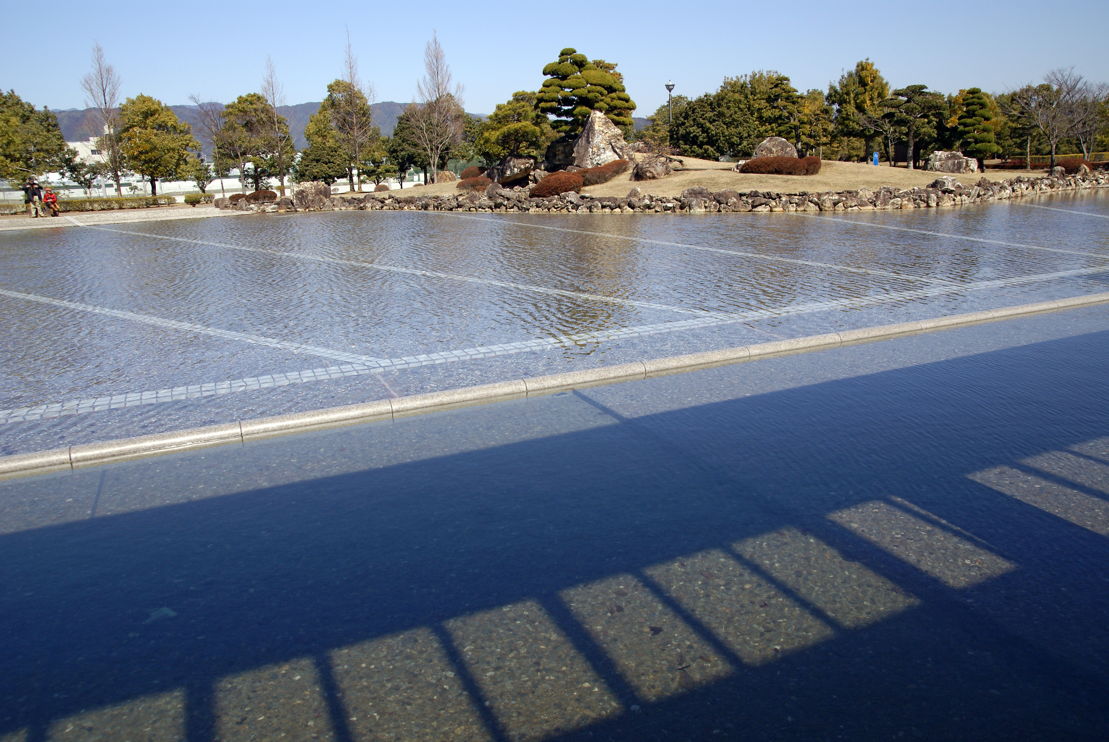 The Museum of Art, Kochi in Kochi, Kochi prefecture, Japan